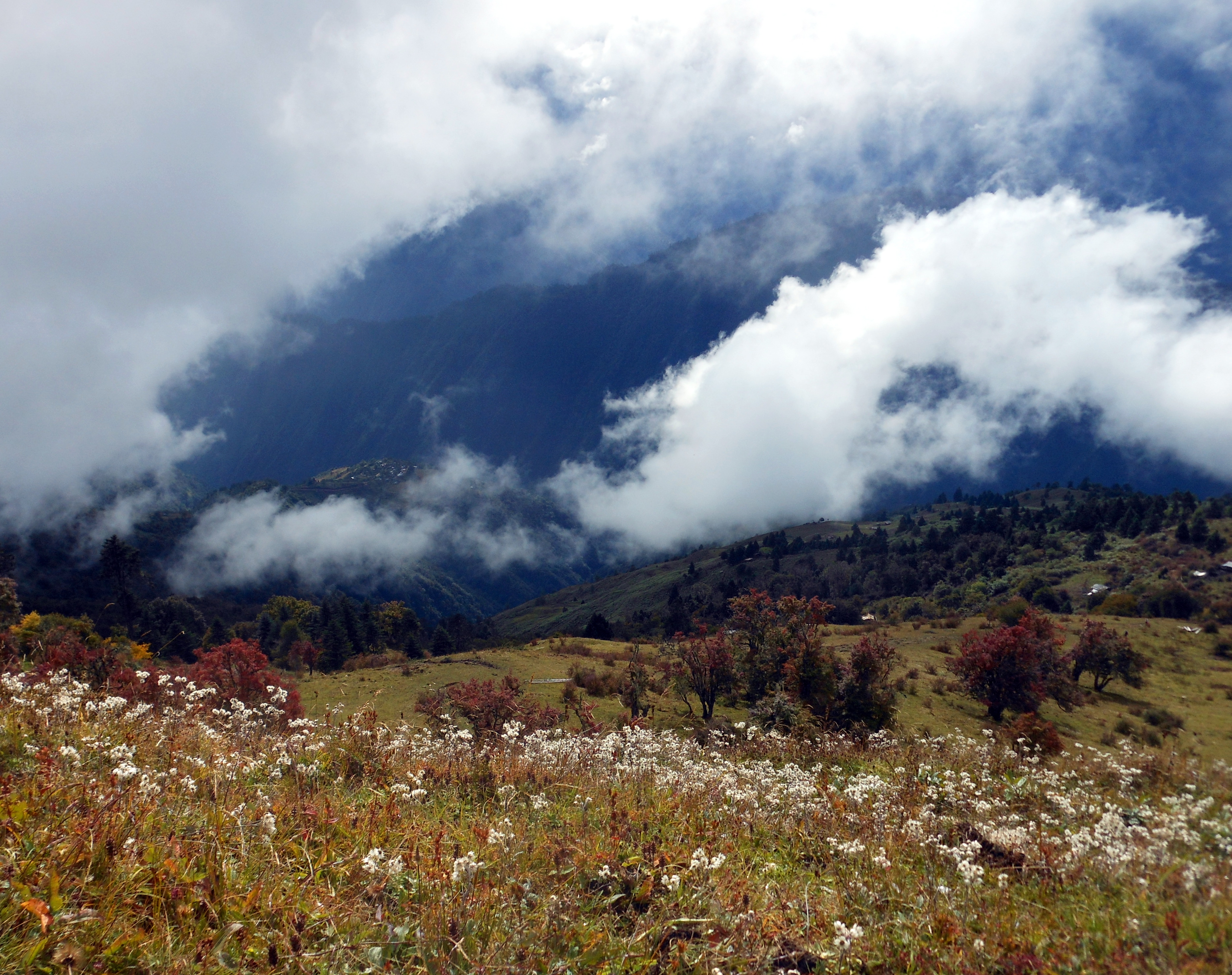 Looking west over the Dimaluo River valley